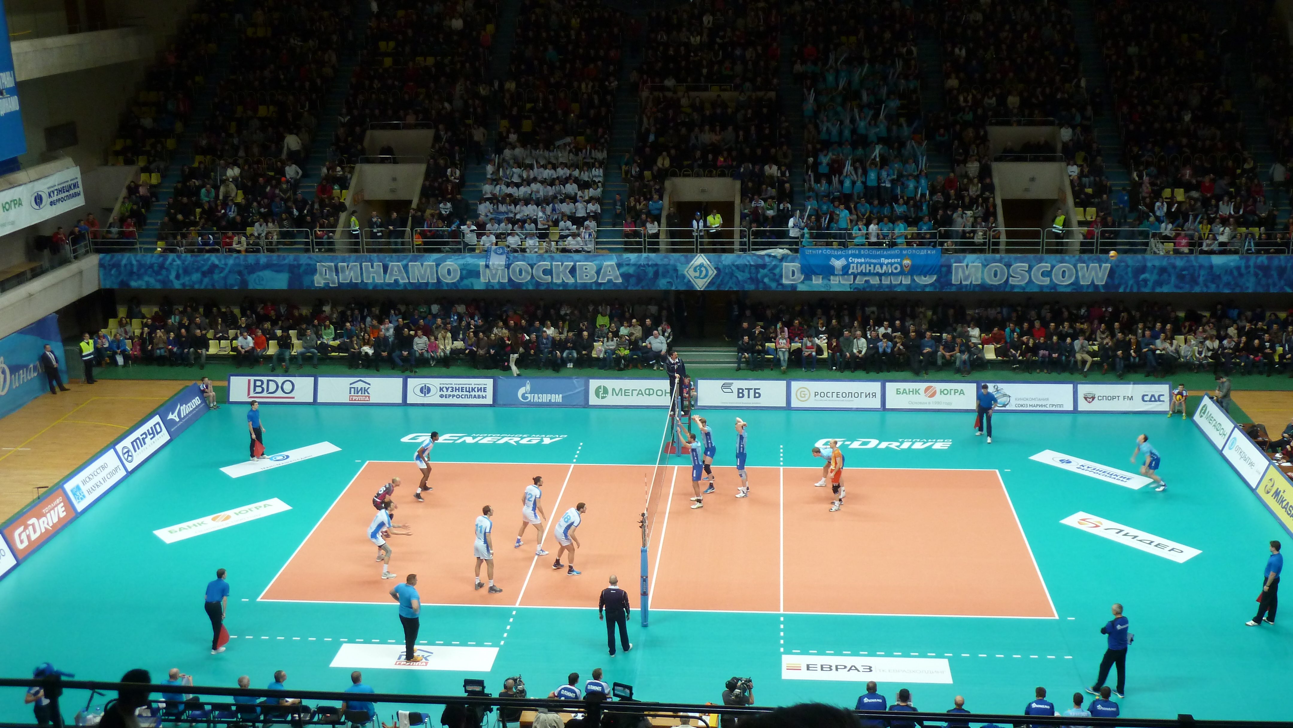 Volleyball match Dinamo Moscow - Zenith Kazan